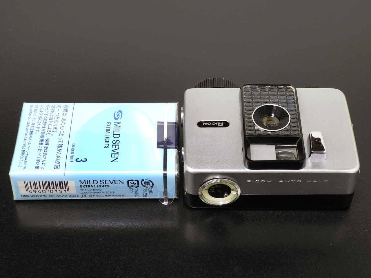 Ricoh Autohalf (size comparison with cigarette)